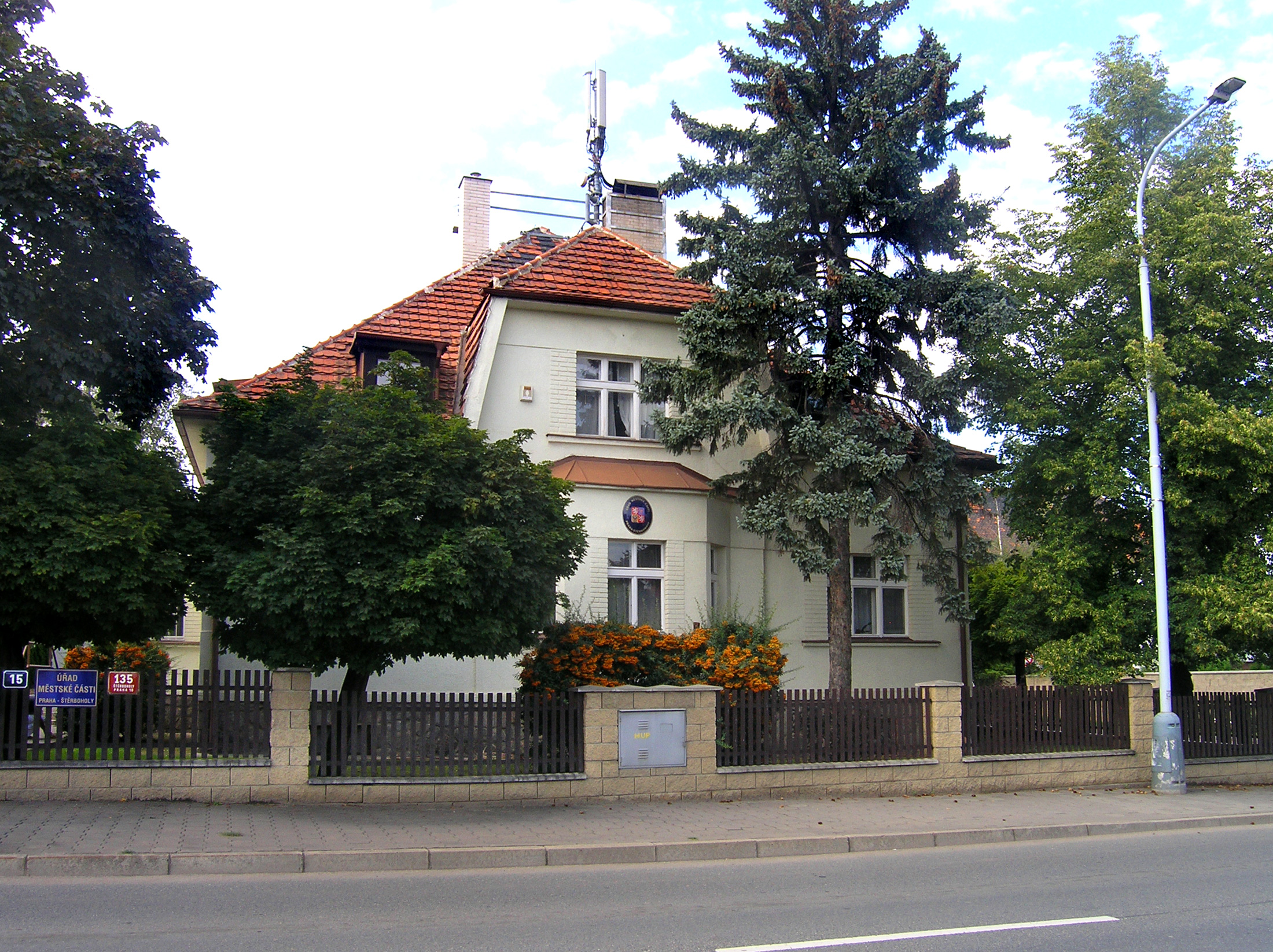 Town Hall at Ústřední street in Štěrboholy, Prague